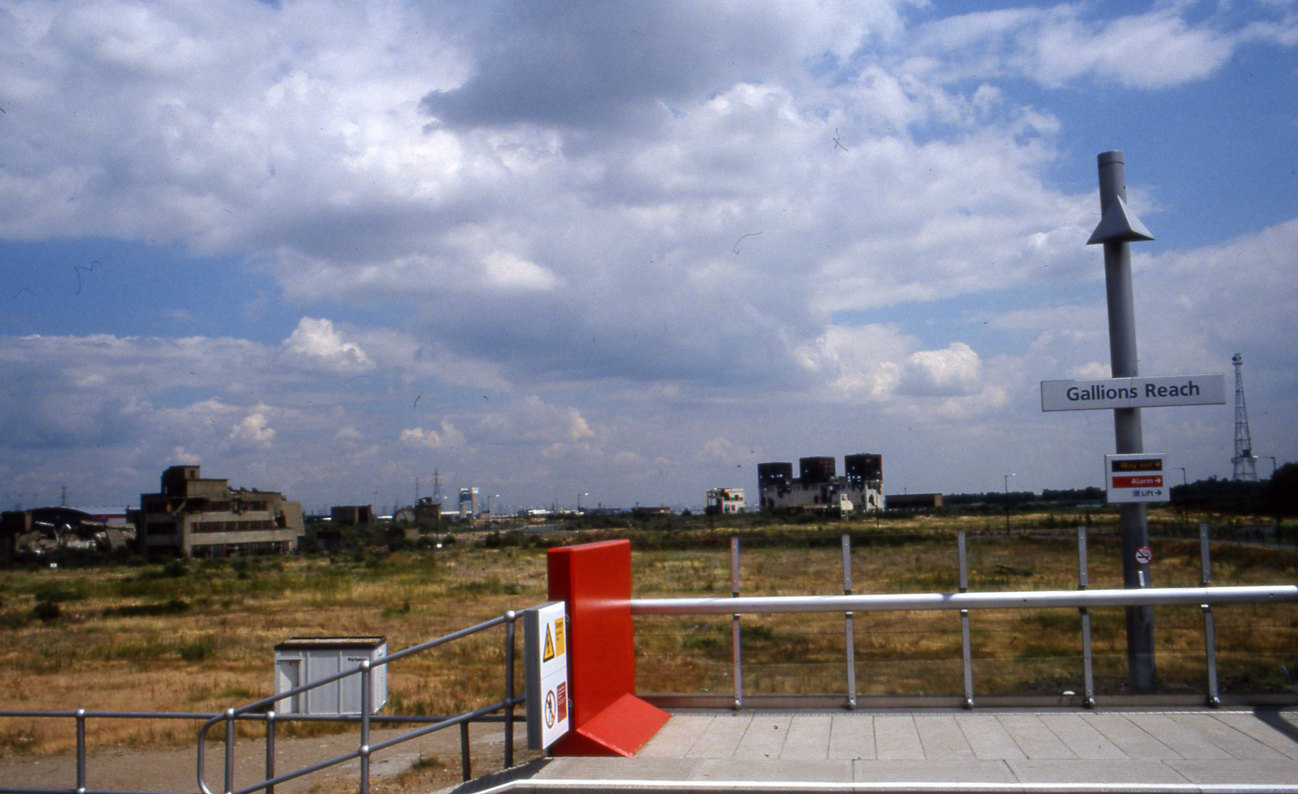 The Ruins of Beckton Gas Works in Eastern London from Gallions Reach DLR Station, 1994.